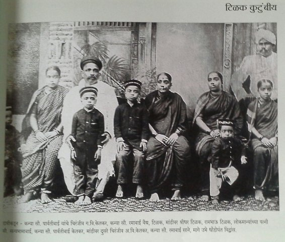 Family of Lokmany Bal Gangadhar Tilak